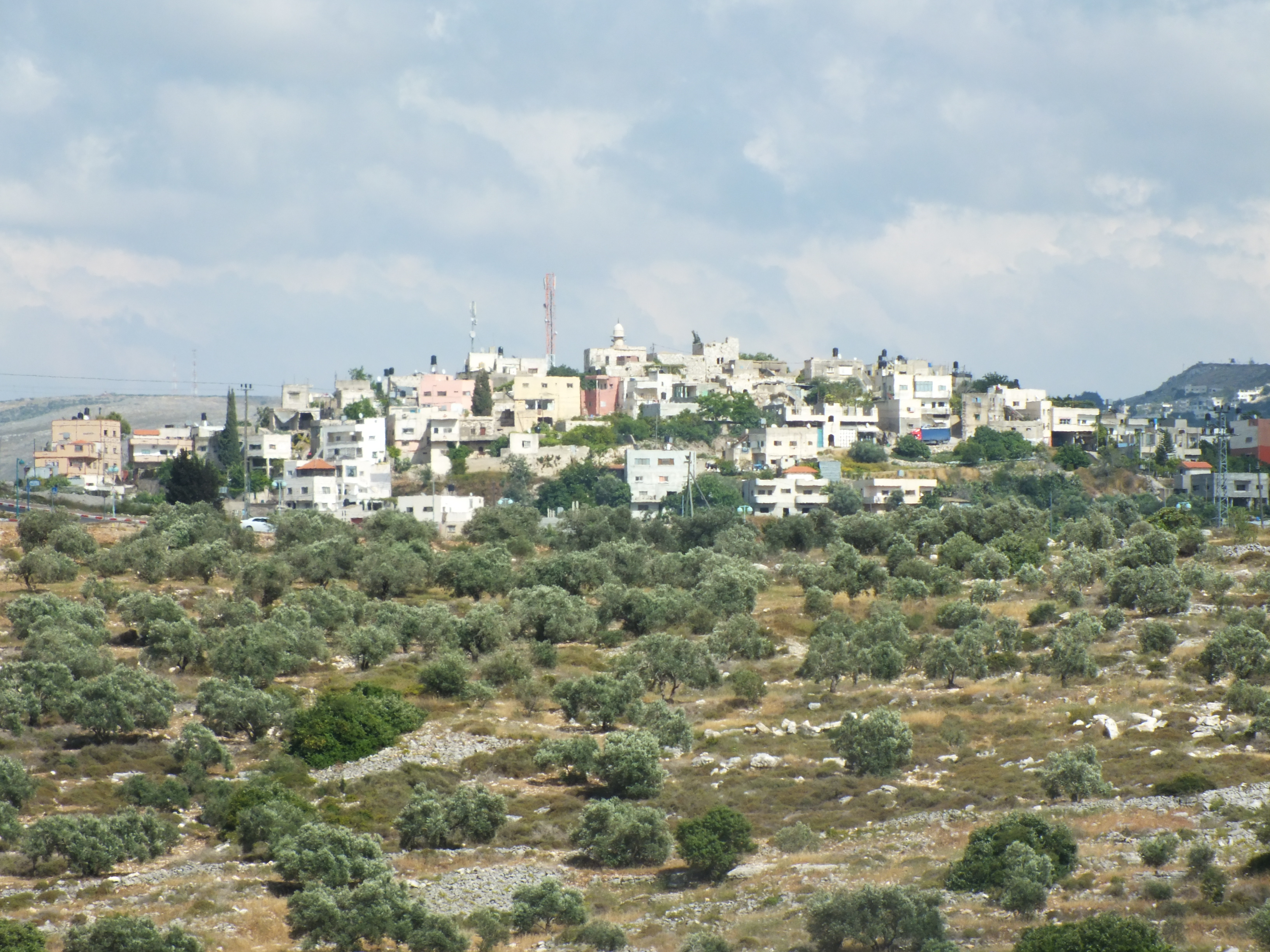 West Bank, Jit on the hill.